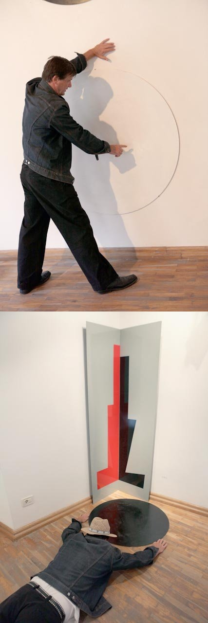 Orlando Mohorovic Krugovi